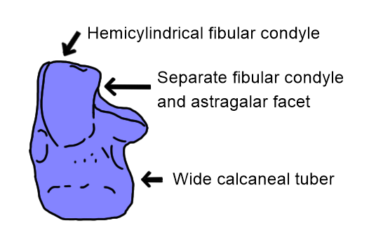 The left calcaneum of Batrachotomus kupferzellensis in proximal view. The top of the image corresponds to the front of the bone. Several synapomorphies of the clade Suchia (according to Nesbitt, 2011) are labelled.